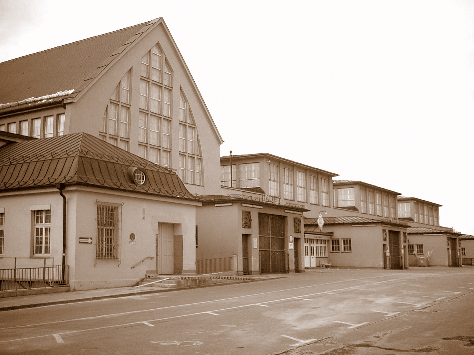 Großmarkthalle, Munich-Sendling: Reconstruction after World War Two: Halls 1 - 4, Halls 2 - 4 rebuilt with flat roof, originally the halls looked all the same . Image taken by Dominik Hundhammer, München, 28 February 2006.